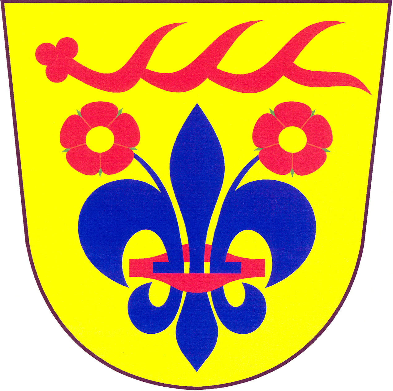 Municipal coat of arms of Dětřichov village, Liberec District, Czech Republic.